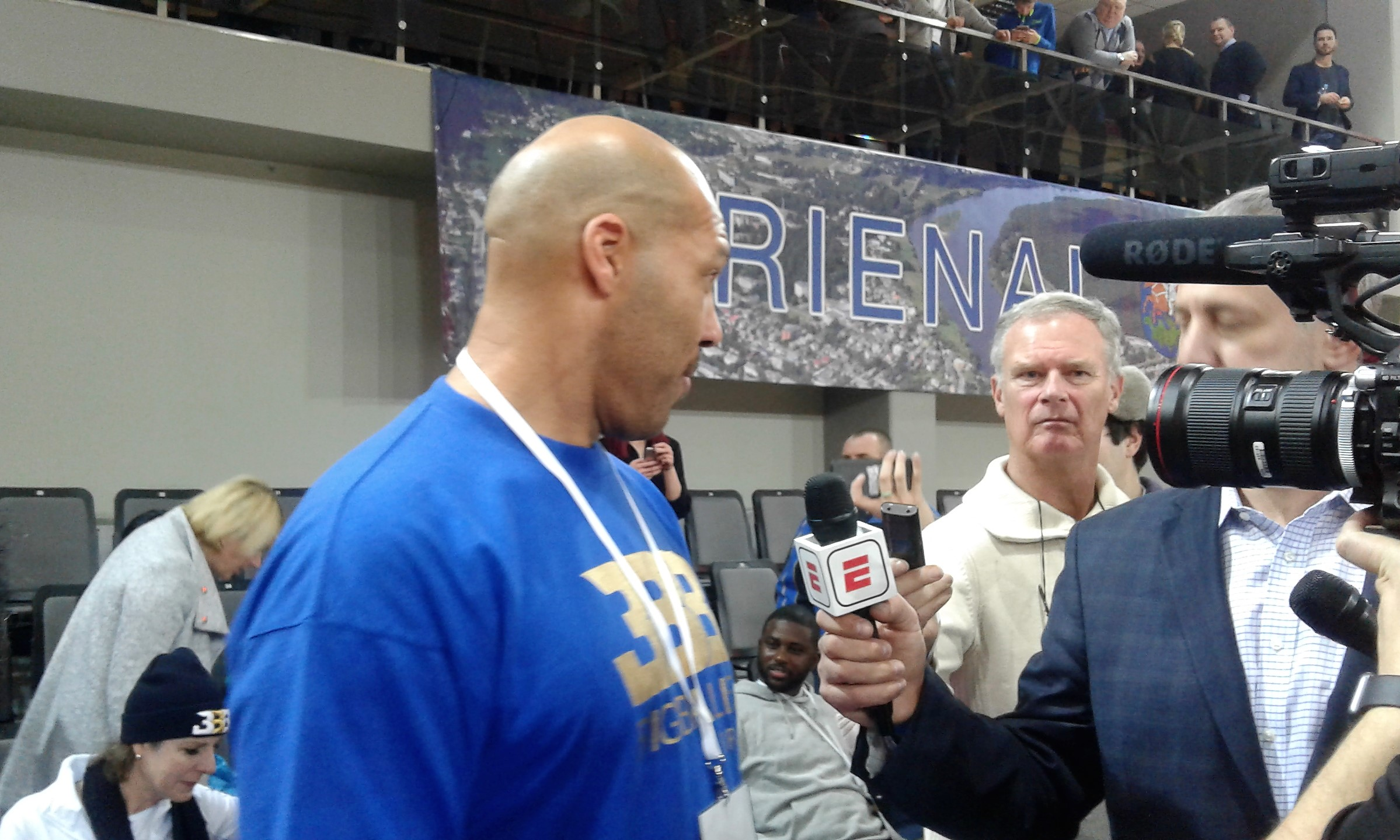 First PRO game of brothers LiAngelo ir LaMelo Balls in Lithuania, Prienai-Birštonas VYTAUTAS